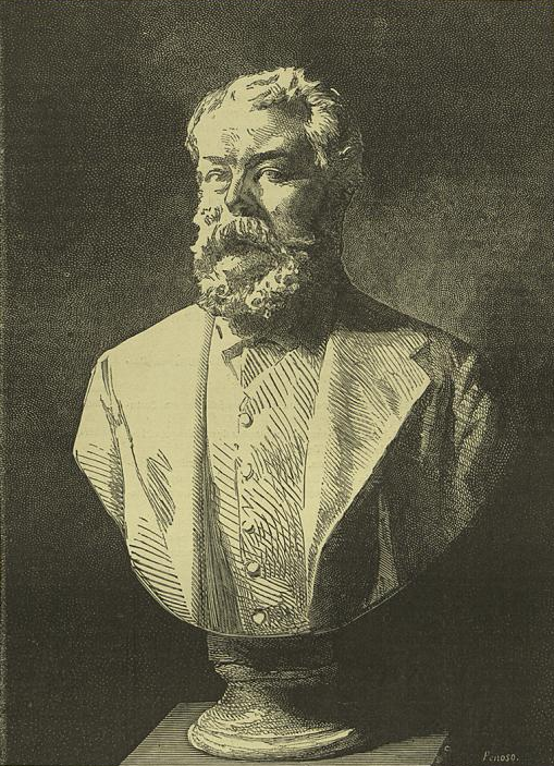 Busto de Francisco Pinto Bessa (1880), por Soares dos Reis.